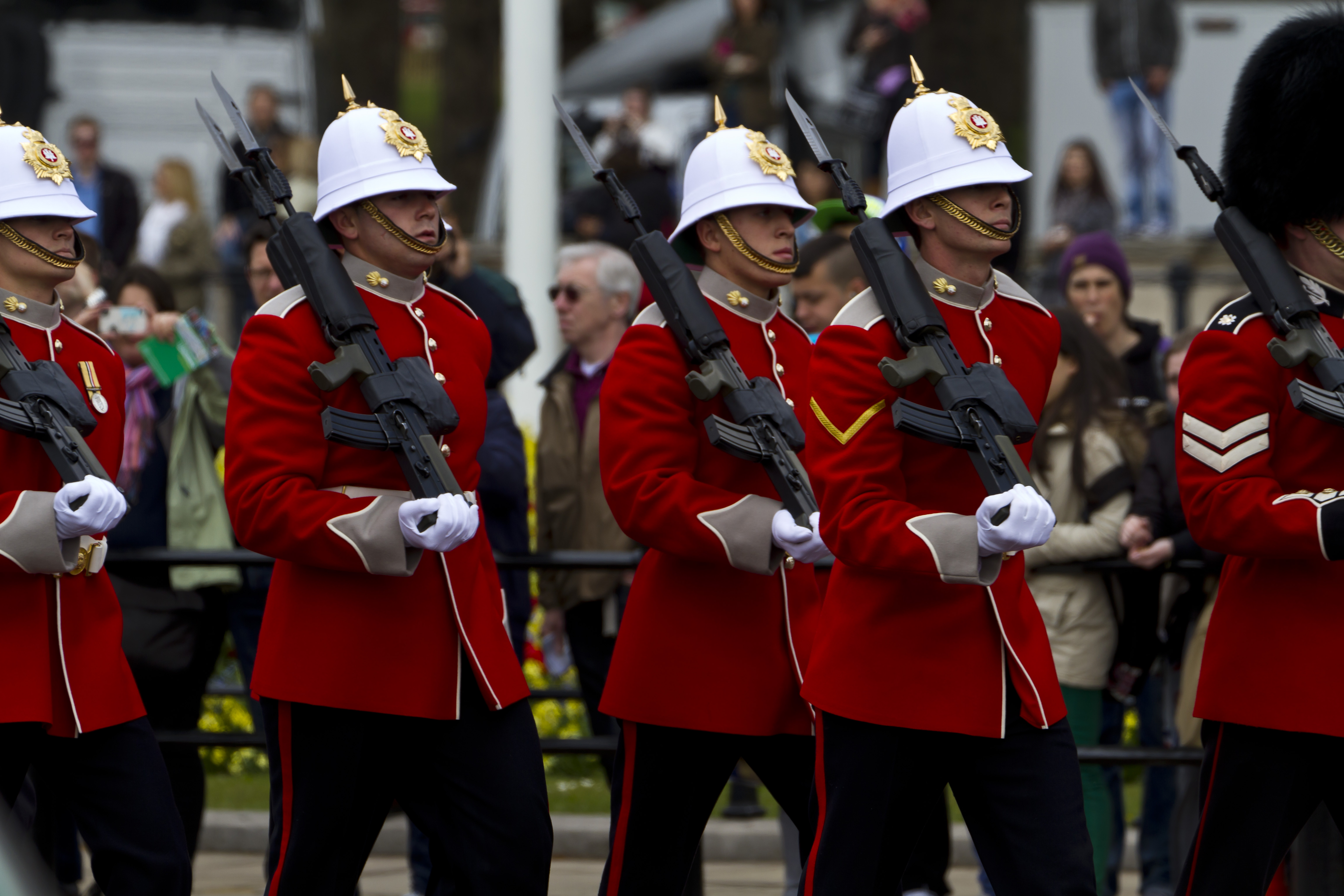 Royal Gibraltar Regiment New Guard St James London